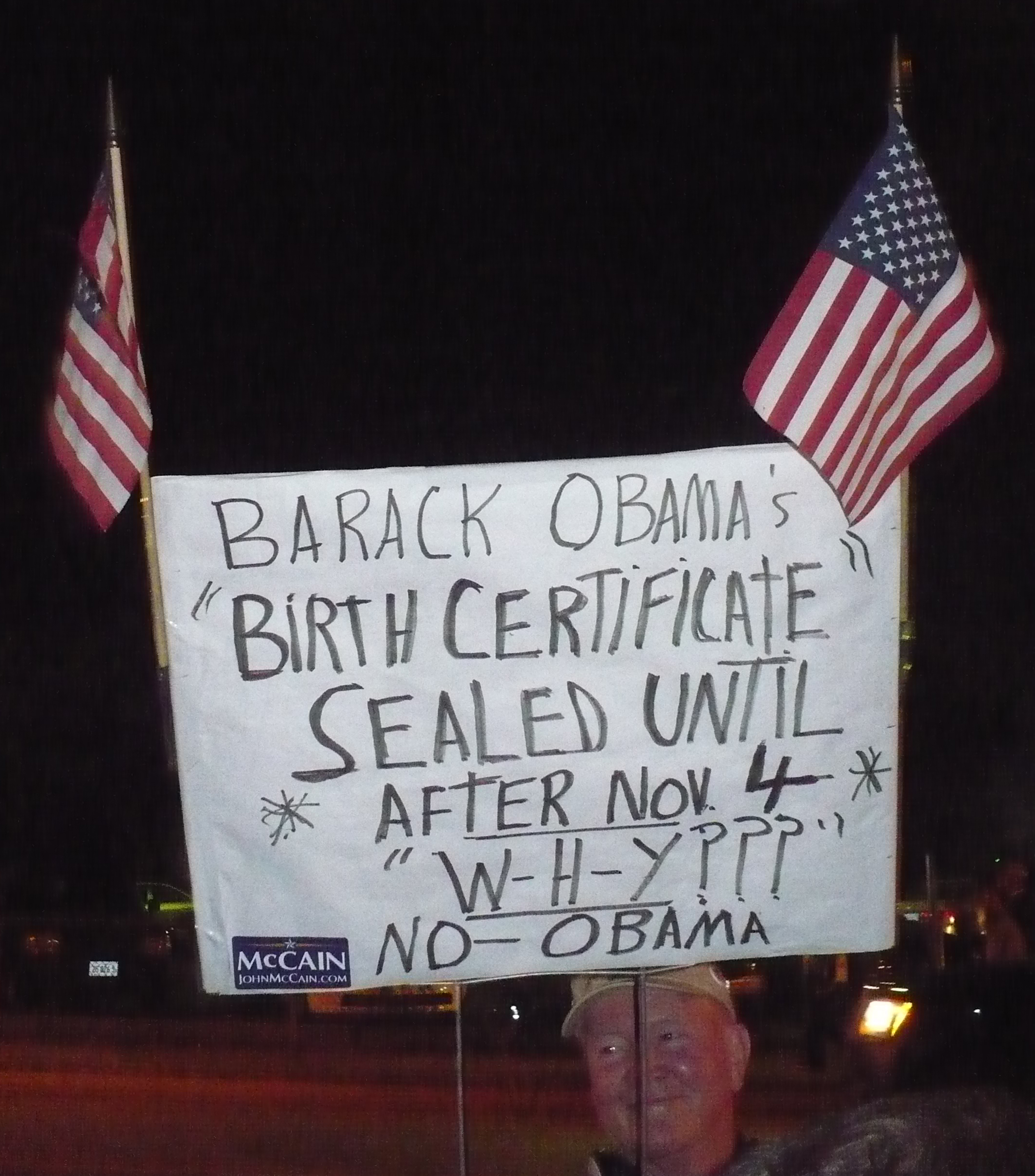 Anti-Barack Obama demonstrator at an Obama rally, Springfield, Missouri, on November 1, 2008